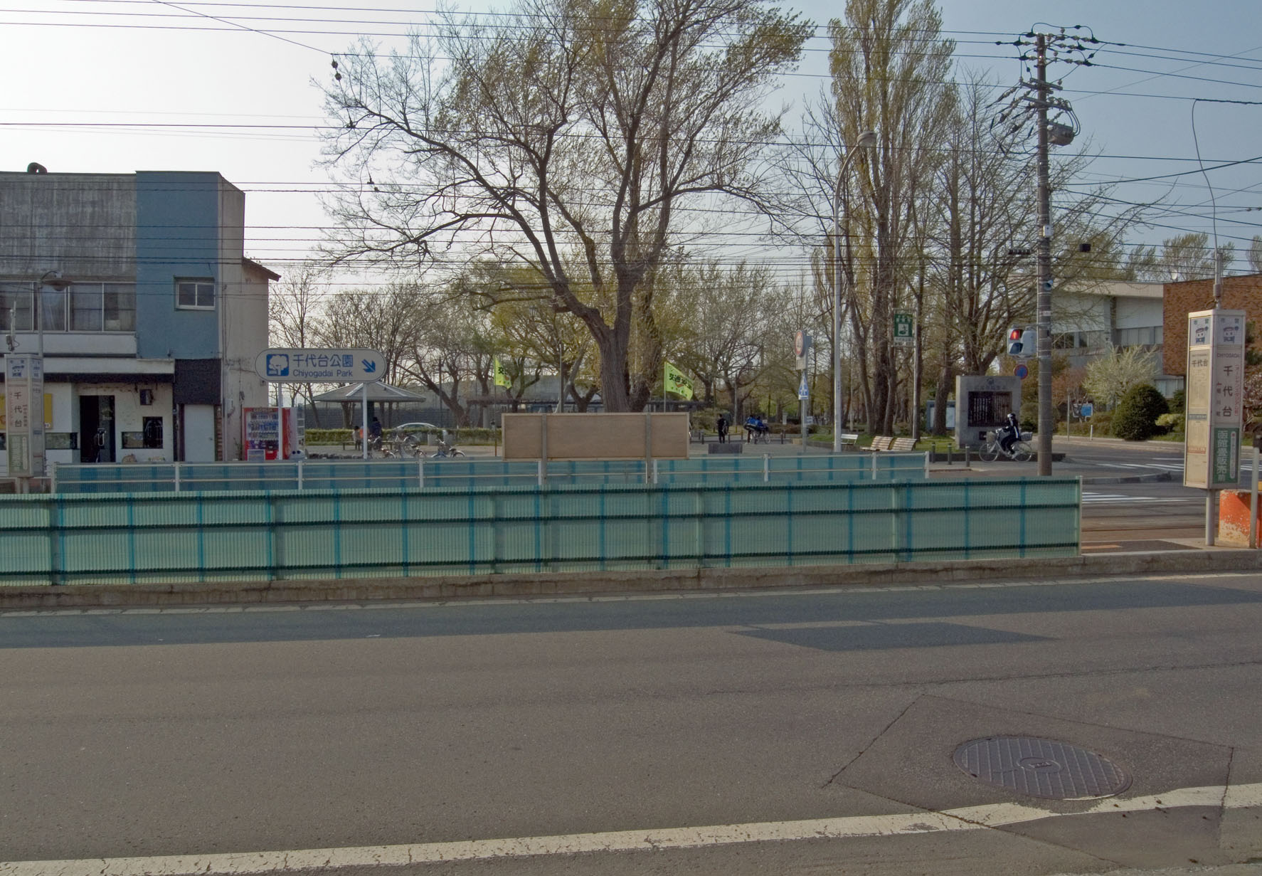 Chiyogadai staion in Hakodate tram, Hokkaido, Japan